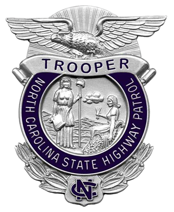 Image is similar if not identical to the badge of the North Carolina Highway Patrol. Made with Photoshop.